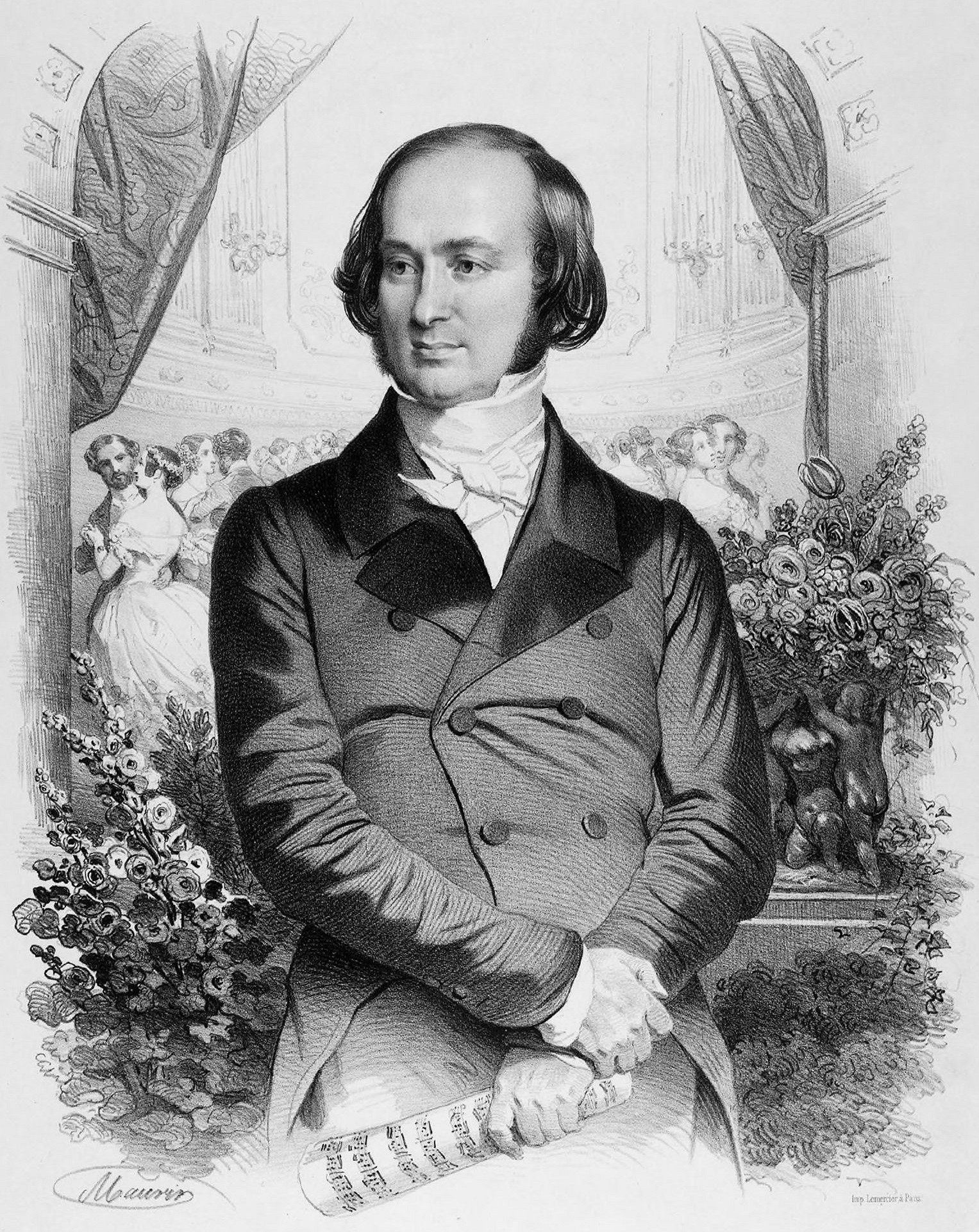 French conductor and art collector Isaac Strauss (1806-1888) by Antoine Maurin (1793-1890).